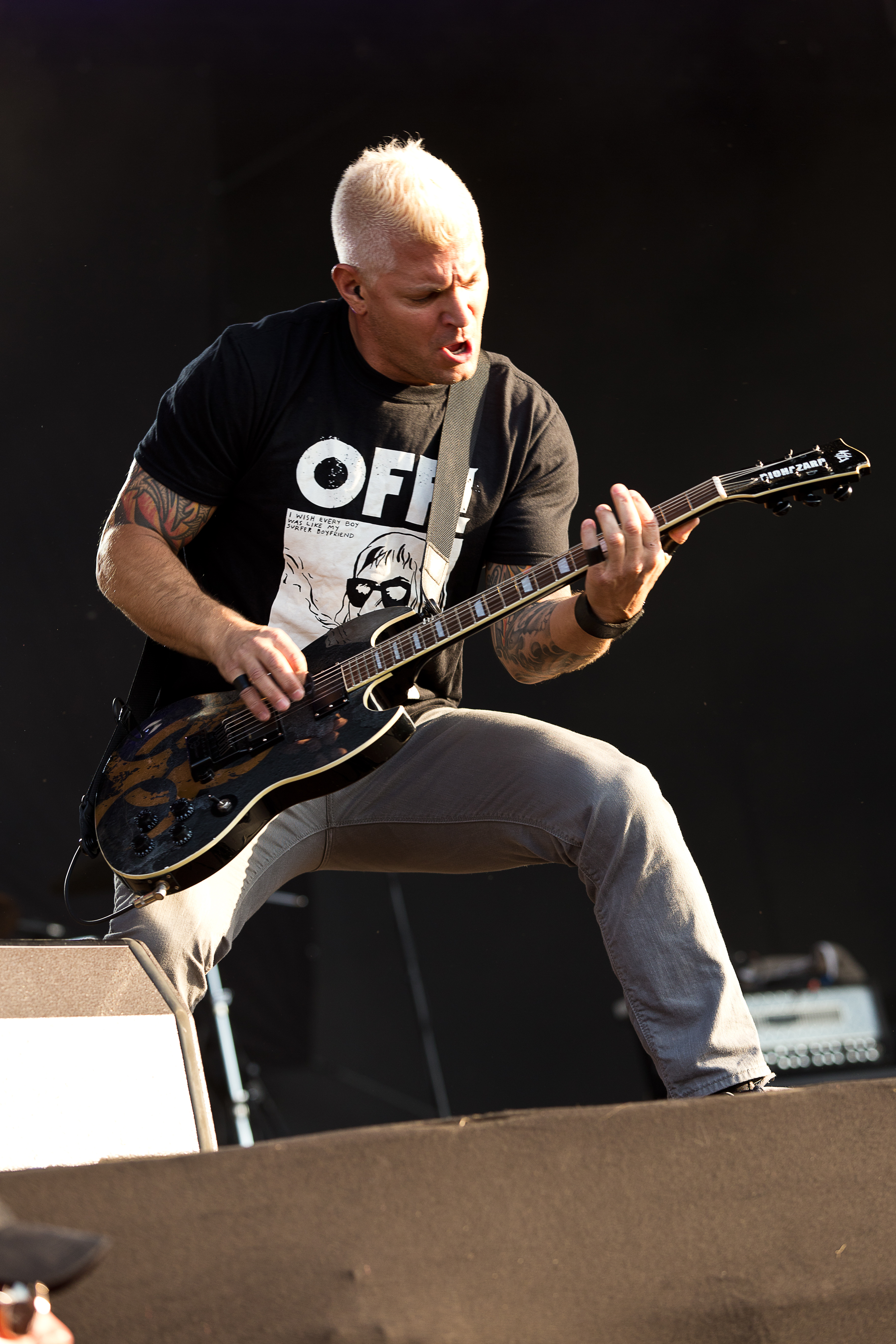 The american metal band Biohazard at the Rockharz Open Air 2015 in Ballenstedt/Germany.